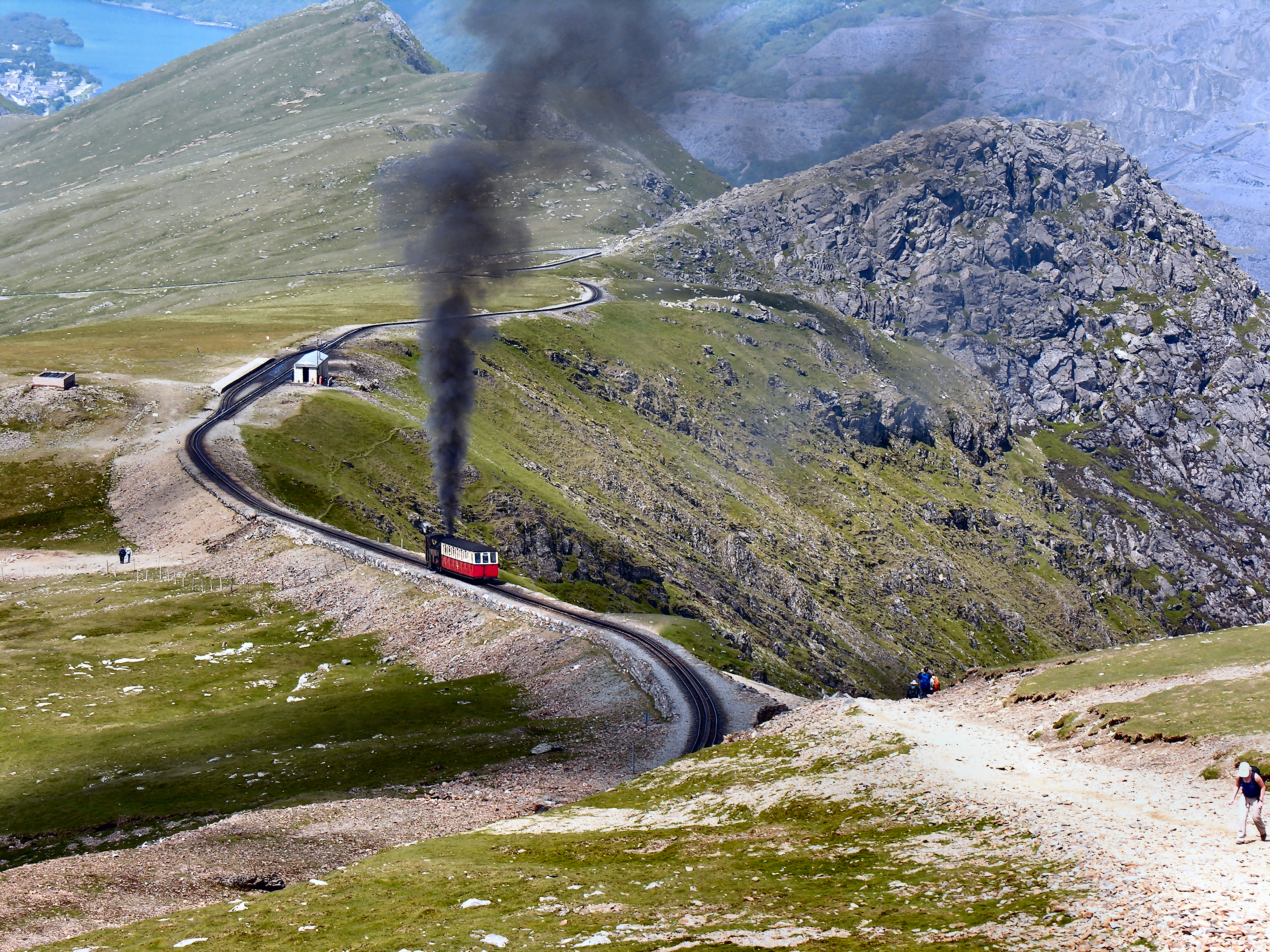 Clogwyn railway station, (779 m, 2556 ft above sea level) the pen-ultimate station of the 6.4 km (4.7 mi) rack-and-pinion Snowdon Mountain Railway taken from the Llanberis path, about 1.1 km from the summit. The station is 681 m above the Llanberis station and 286 m below the Summit station.